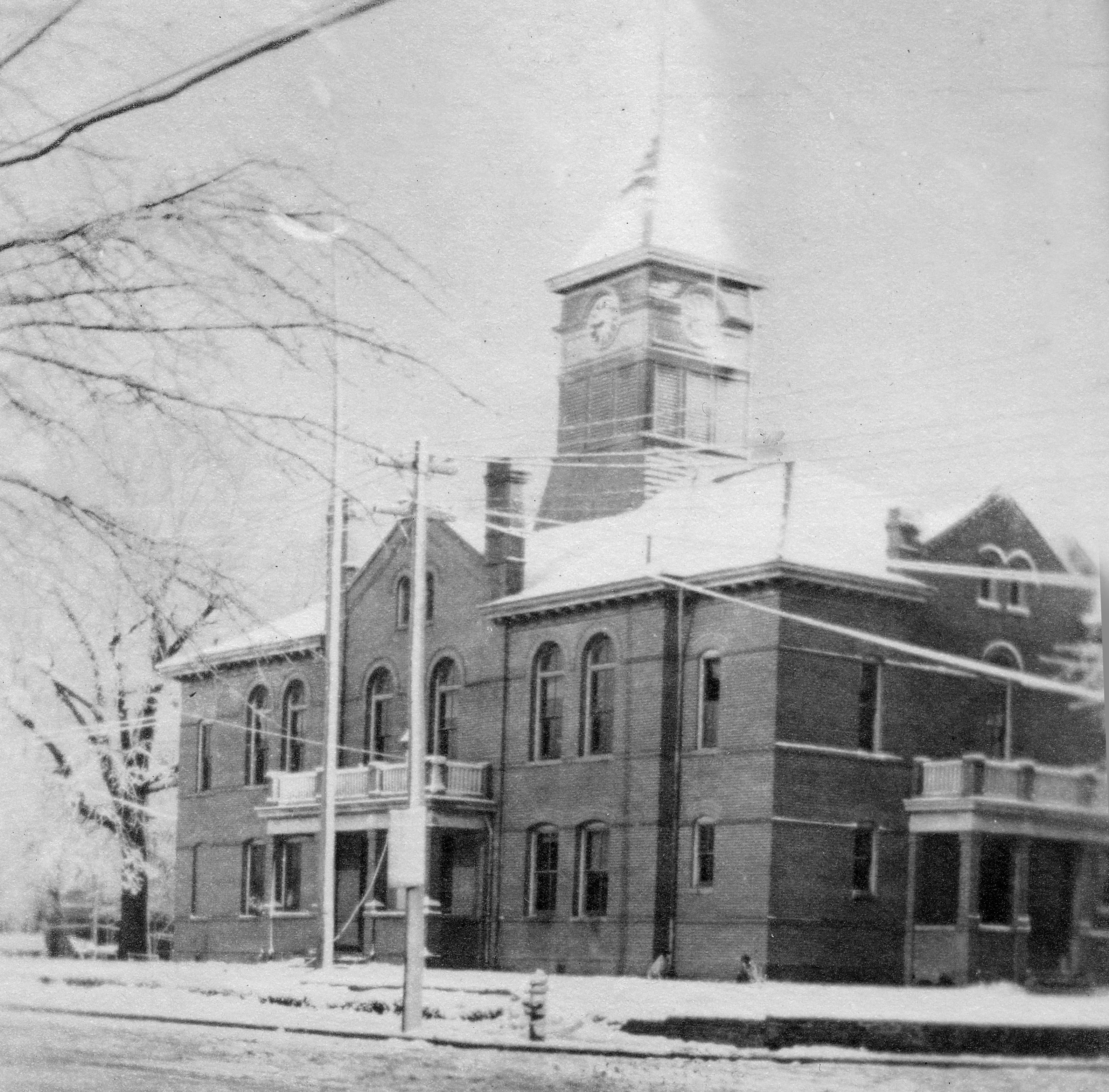 Sampson County Courthouse, Clinton, NC, in snow, c.1910-1915, from the Claudeous (Claudius) and Sudie (Murray) Oates Photo Collection, PhC.22, State Archives of North Carolina.